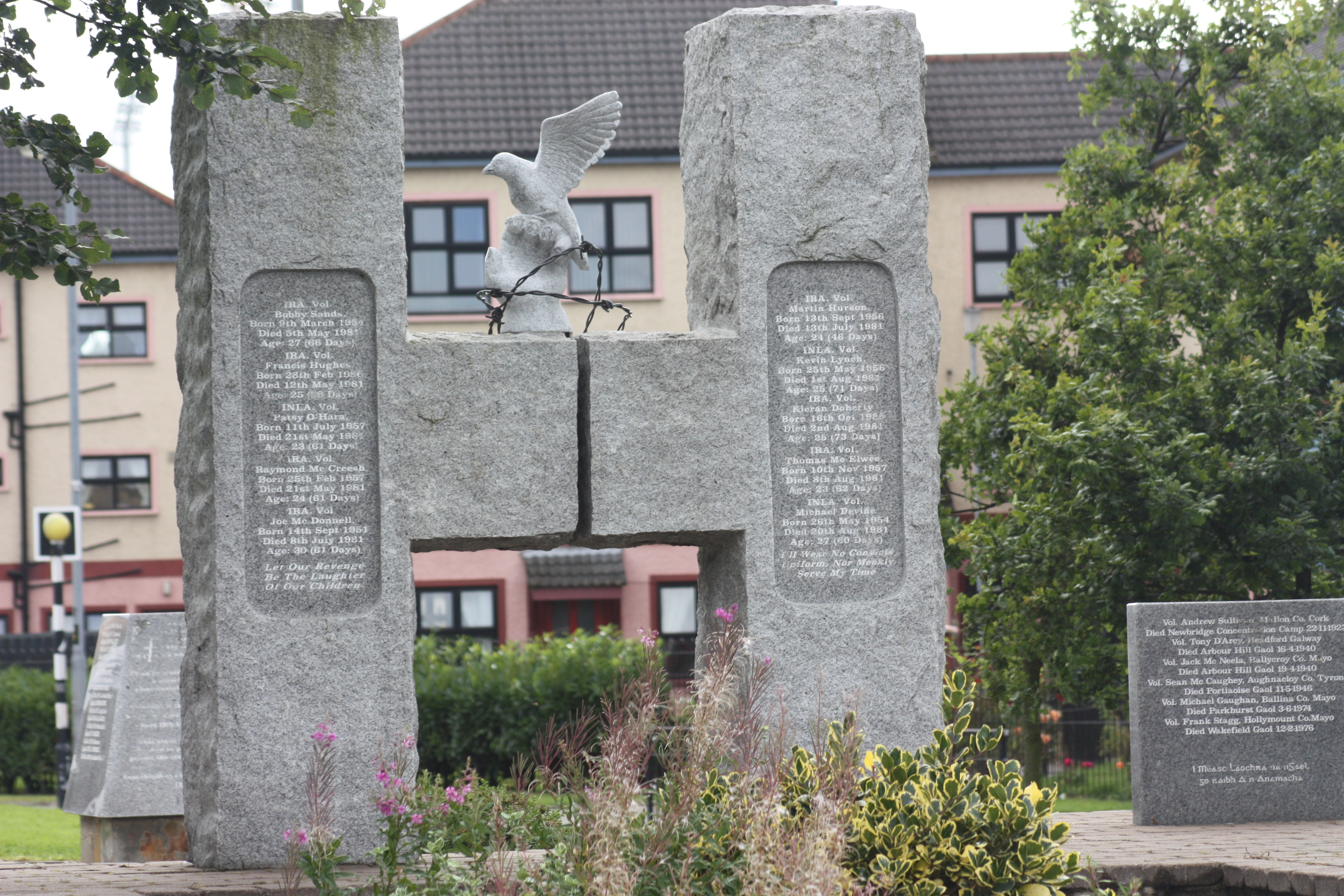 Hunger Strike memorial, Bogside, Derry, County Londonderry, Northern Ireland, August 2009